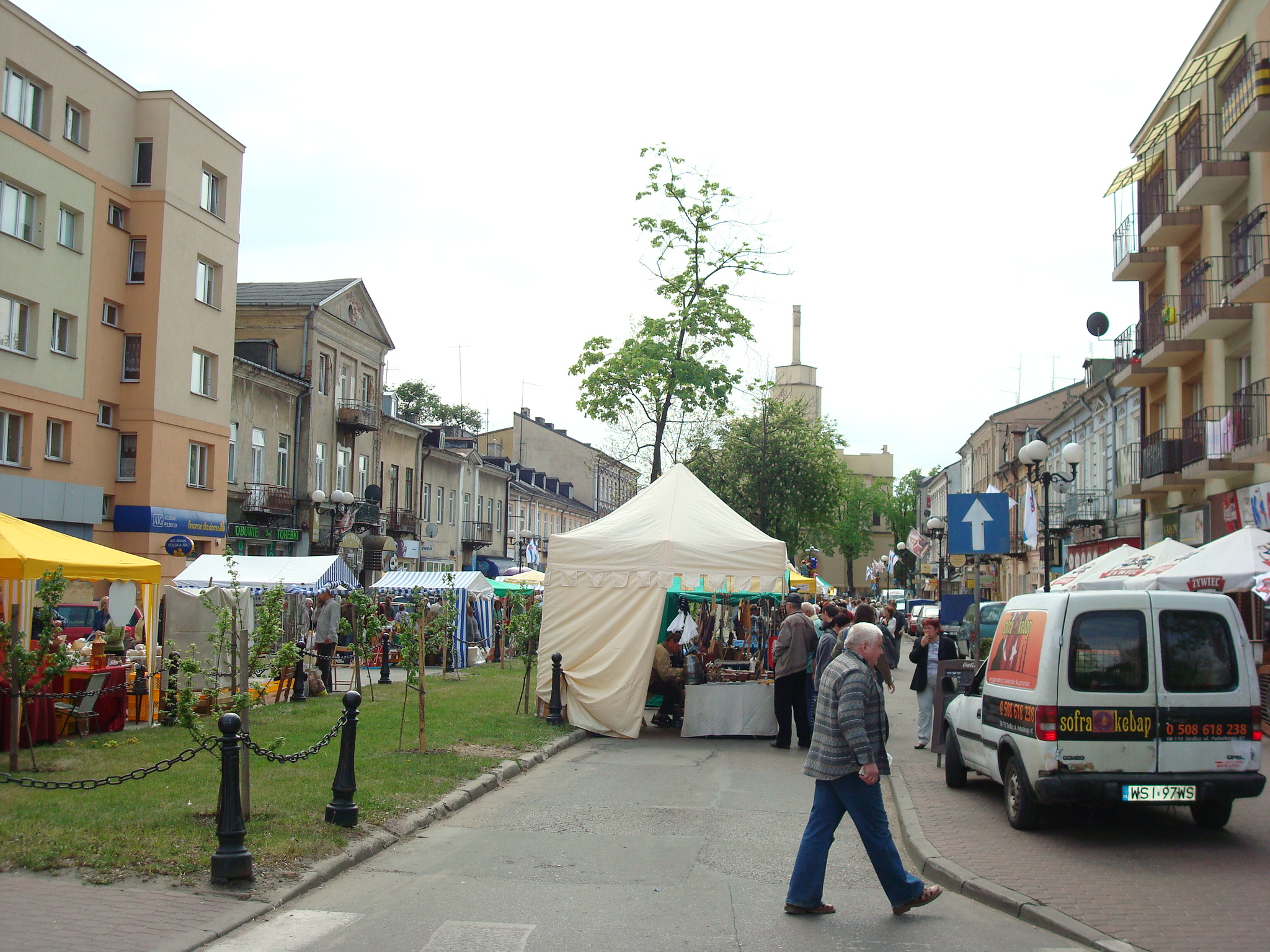 Holy fair Stanisława in Siedlce